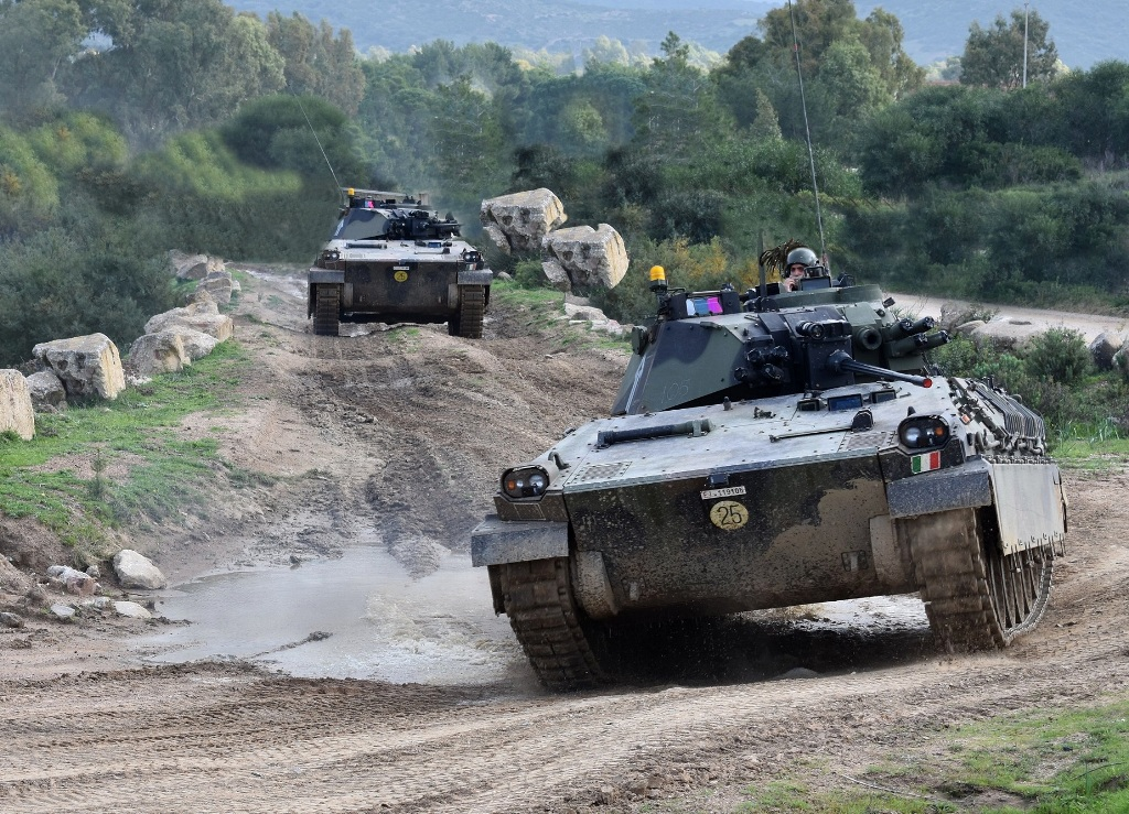 1st Bersaglieri Regiment Dardo IFVs during an exercise in Capo Teulada